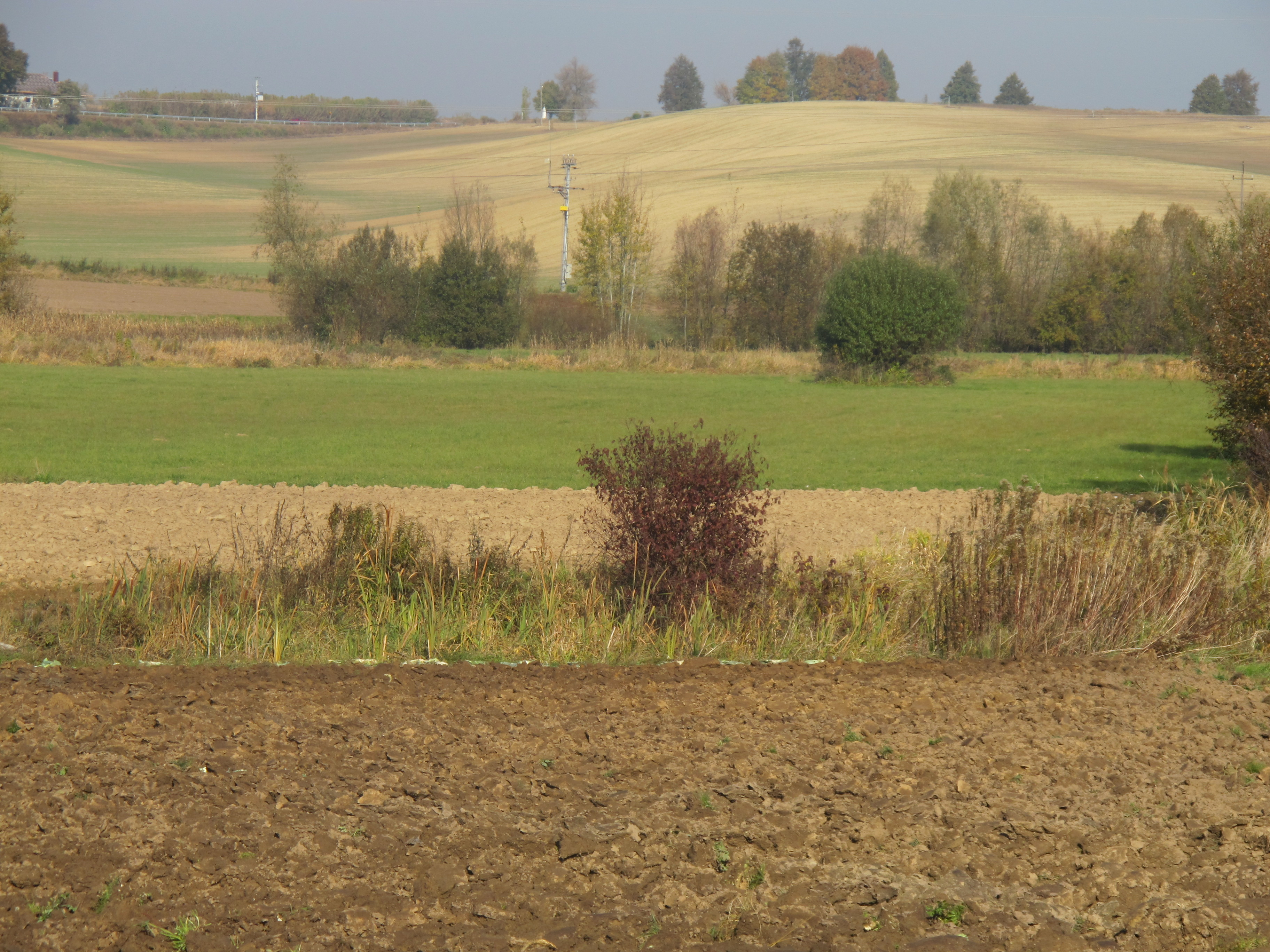 Wilczyce archaeological site and Opatówka river valley